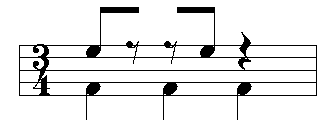 A 2:3 cross-rhythm, an example of a polyrhythm.